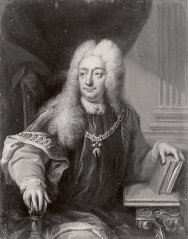 Portrait of Carlo Archinto, conte di Tainate (1669-1732)